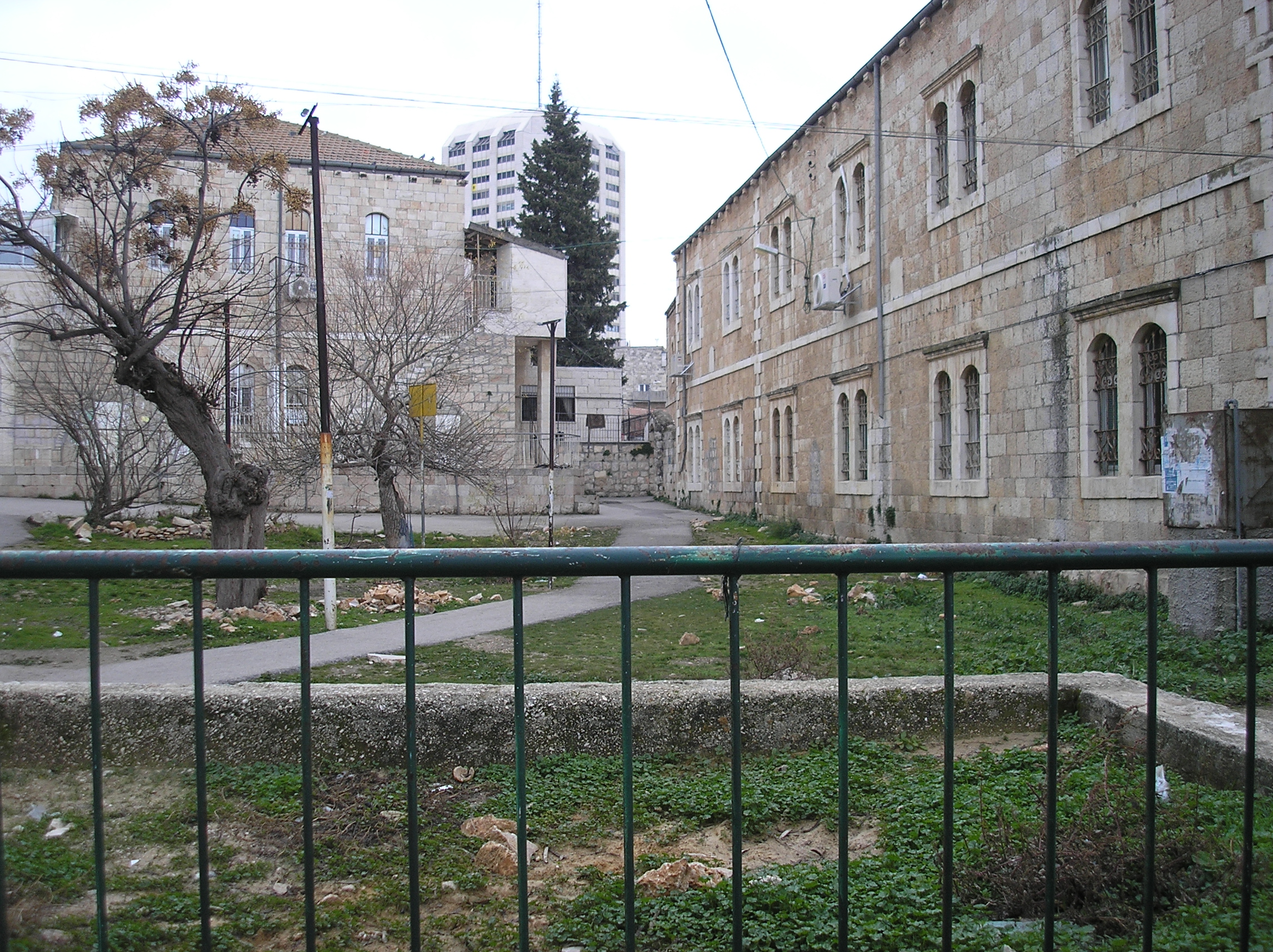 in Bathey Broyda in Nahlaot